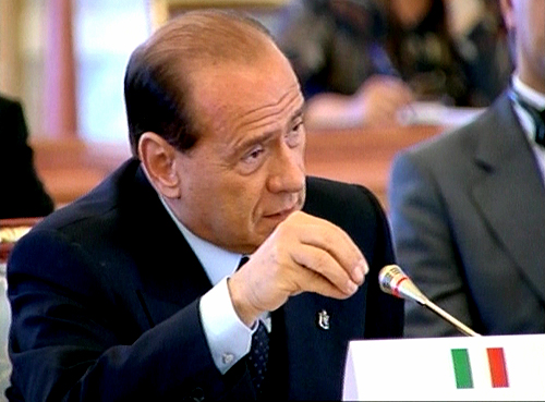 CONSTANTINE PALACE, STRELNA. Italian Prime Minister Silvio Berlusconi at a plenary meeting of the Russia - EU Summit.